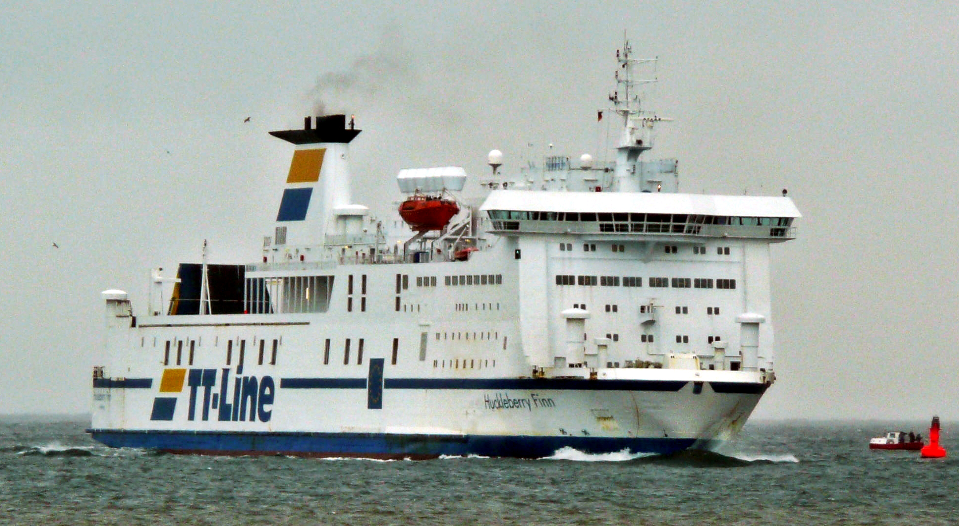 This image shows the ferry "Huckleberry Finn" (TT-Line shipping company) in Warnemünde.